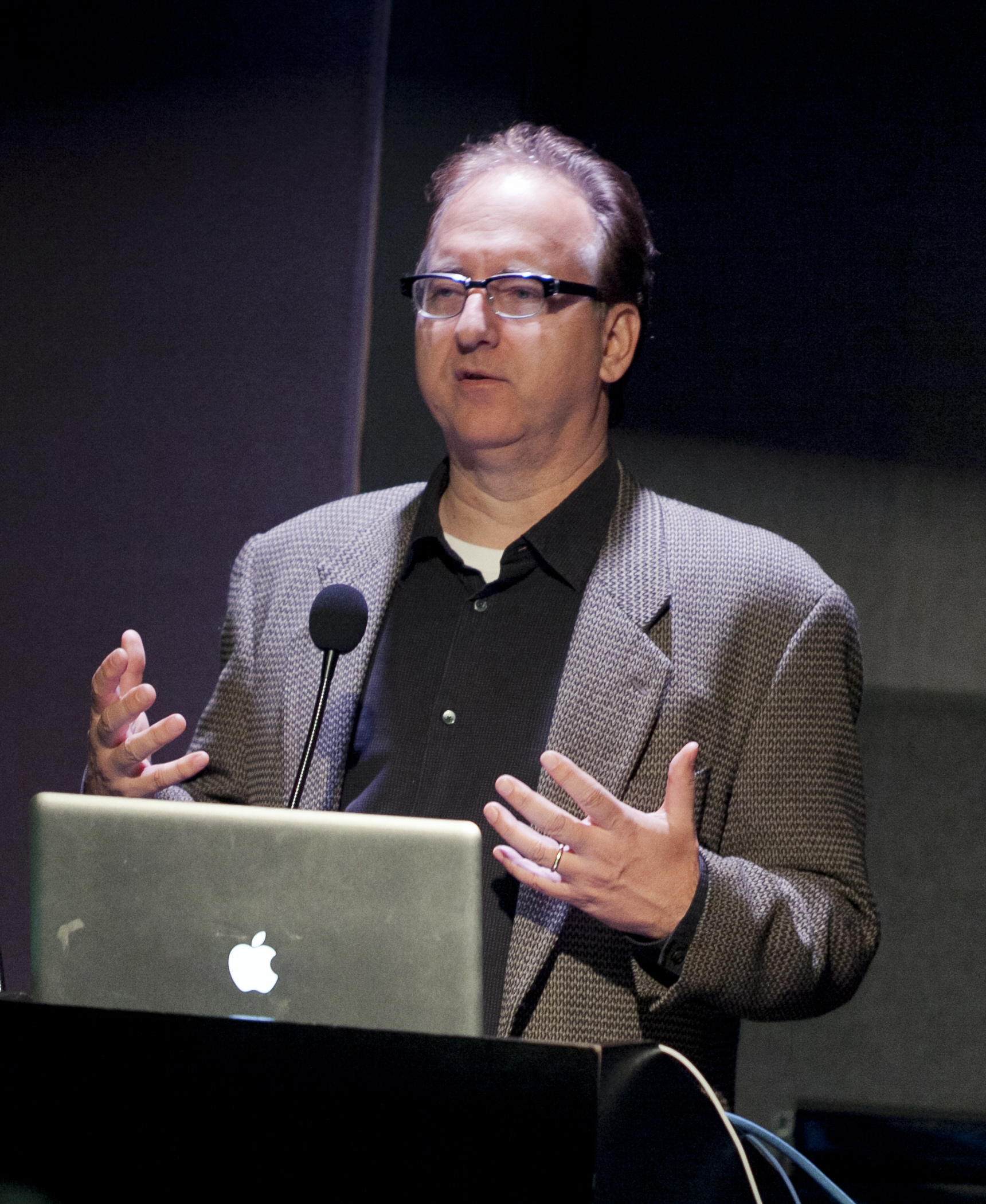 Guest speaker and VFS Advisory Board Member Jim Jennewein (The Flintstones) offered advice from his years of experience to students of the Writing for Film & Television Two-Weekend Intensive in a special presentation. Inspired by the consistently sold-out Writing for Film & Television Summer Intensive Program, the Two-Weekend Intensive was designed for aspiring film and television writers with busy weekday schedules. Over the course of two weekends, participants learn a variety of screenwriting tools, techniques, and exercises that closely represent what students learn in the one-year Writing for Film & Television program. Find out more about VFS’s one-year Writing for Film & Television program at